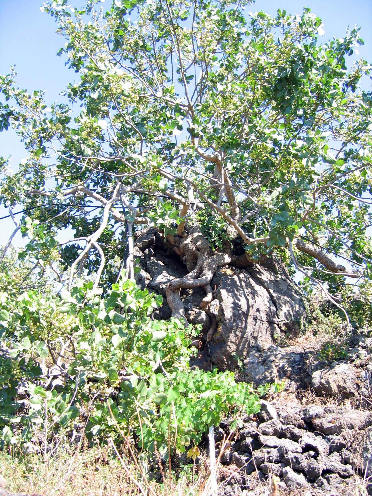 Pistacia vera 'Napoletana' - "Pistacchio Verde di Bronte"